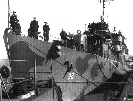 Commissioning of the U.S. Navy high-speed transport USS Register (APD-92) at the Charleston Naval Shipyard, Charleston, South Carolina (USA), on 11 January 1945.